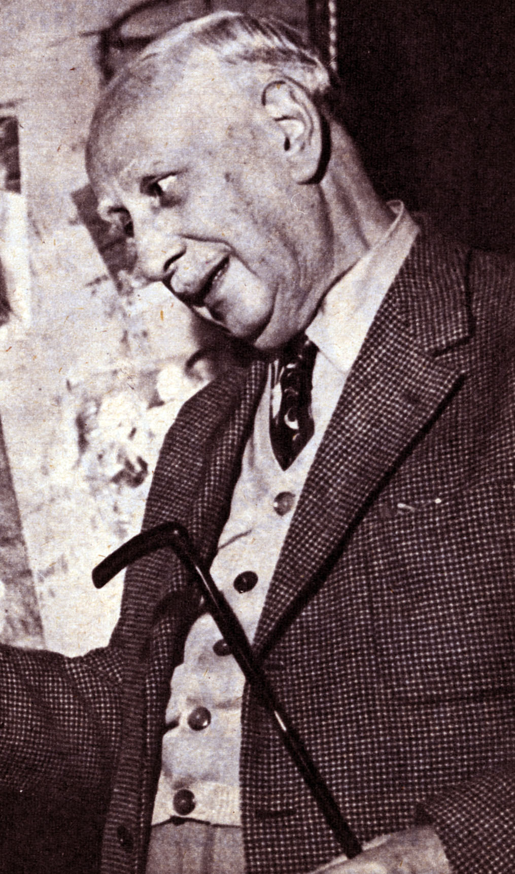 photo from the magazine Radiocorriere (1961)